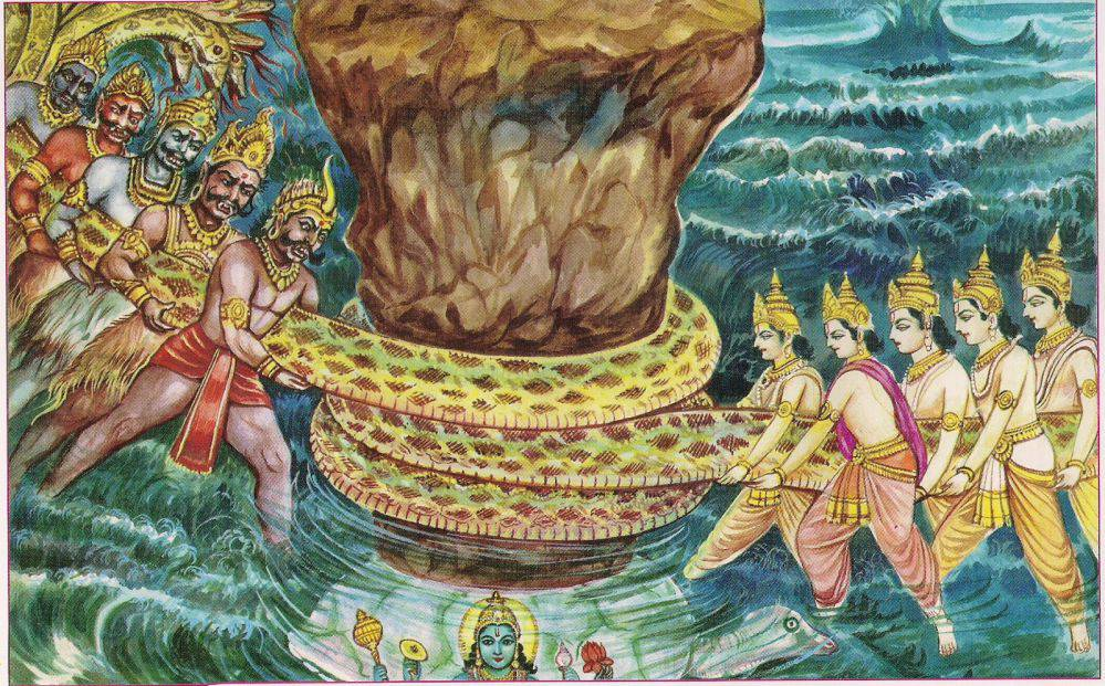 Asuras depicted with Dravidian features